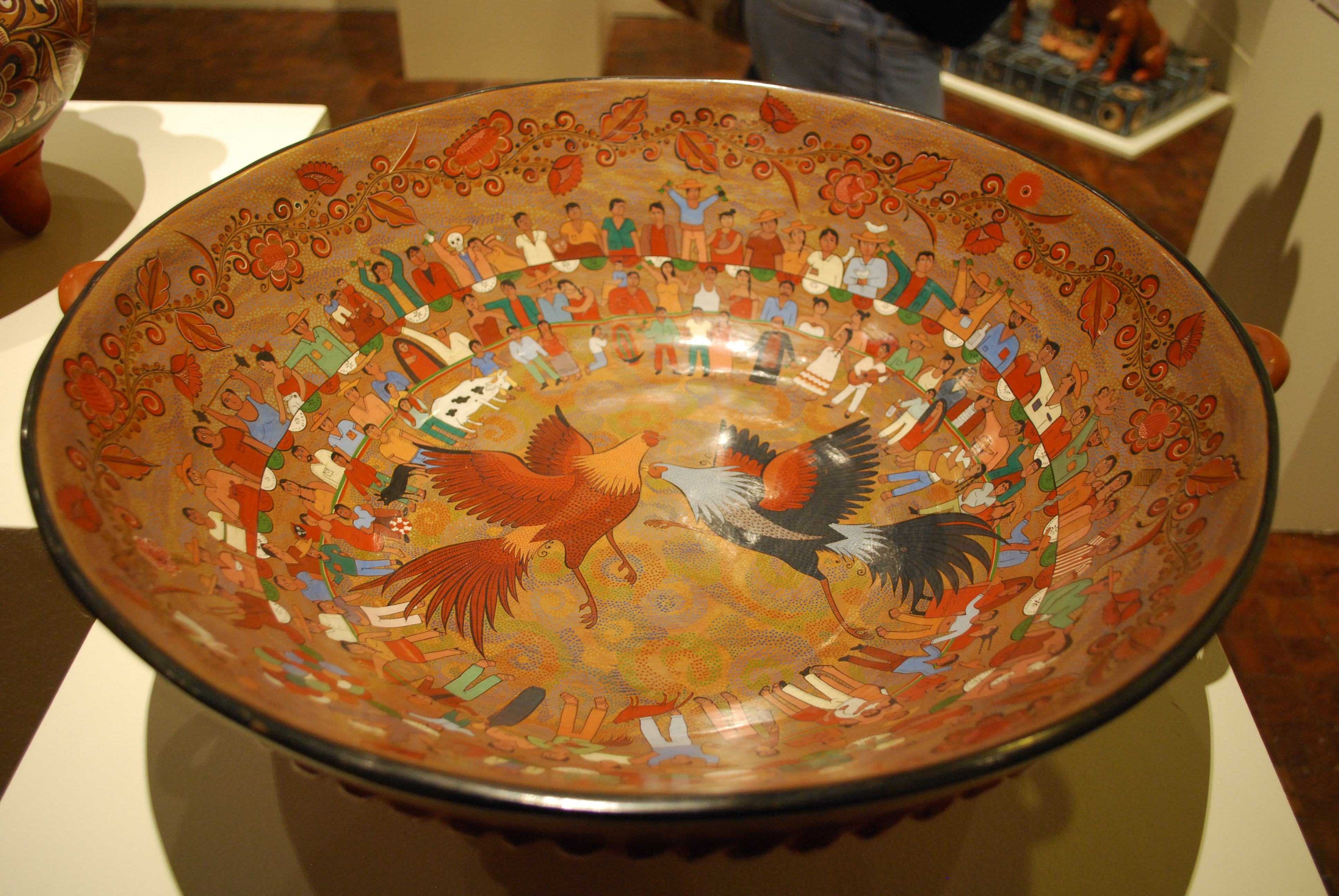 Bowl called "Entre Gallos" (barro bruñido) by José Angel Santos Juarez of Tonala, Jalisco on display at the Museo de Arte Popular in Mexico City